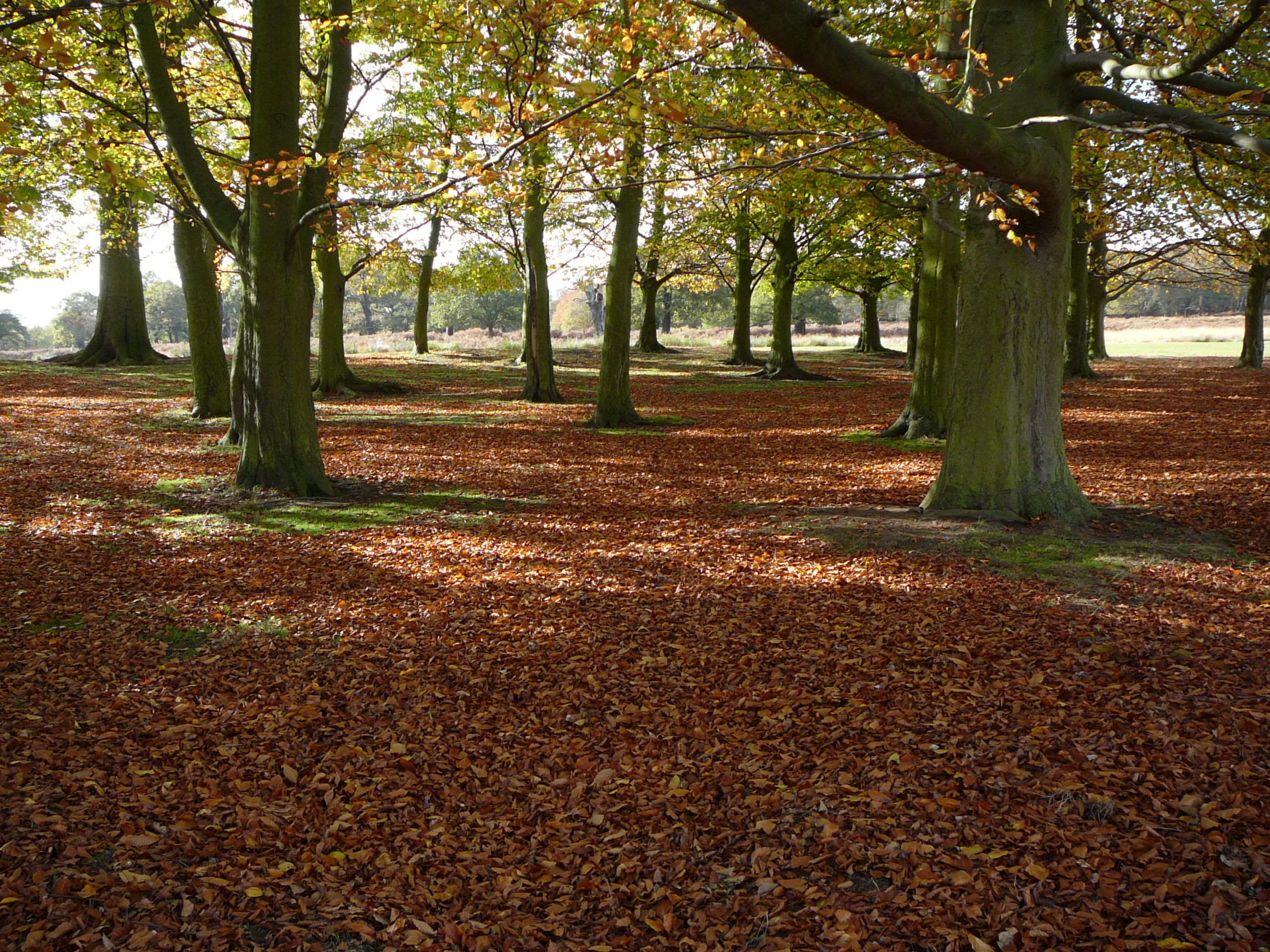 Richmond Park early november understorey